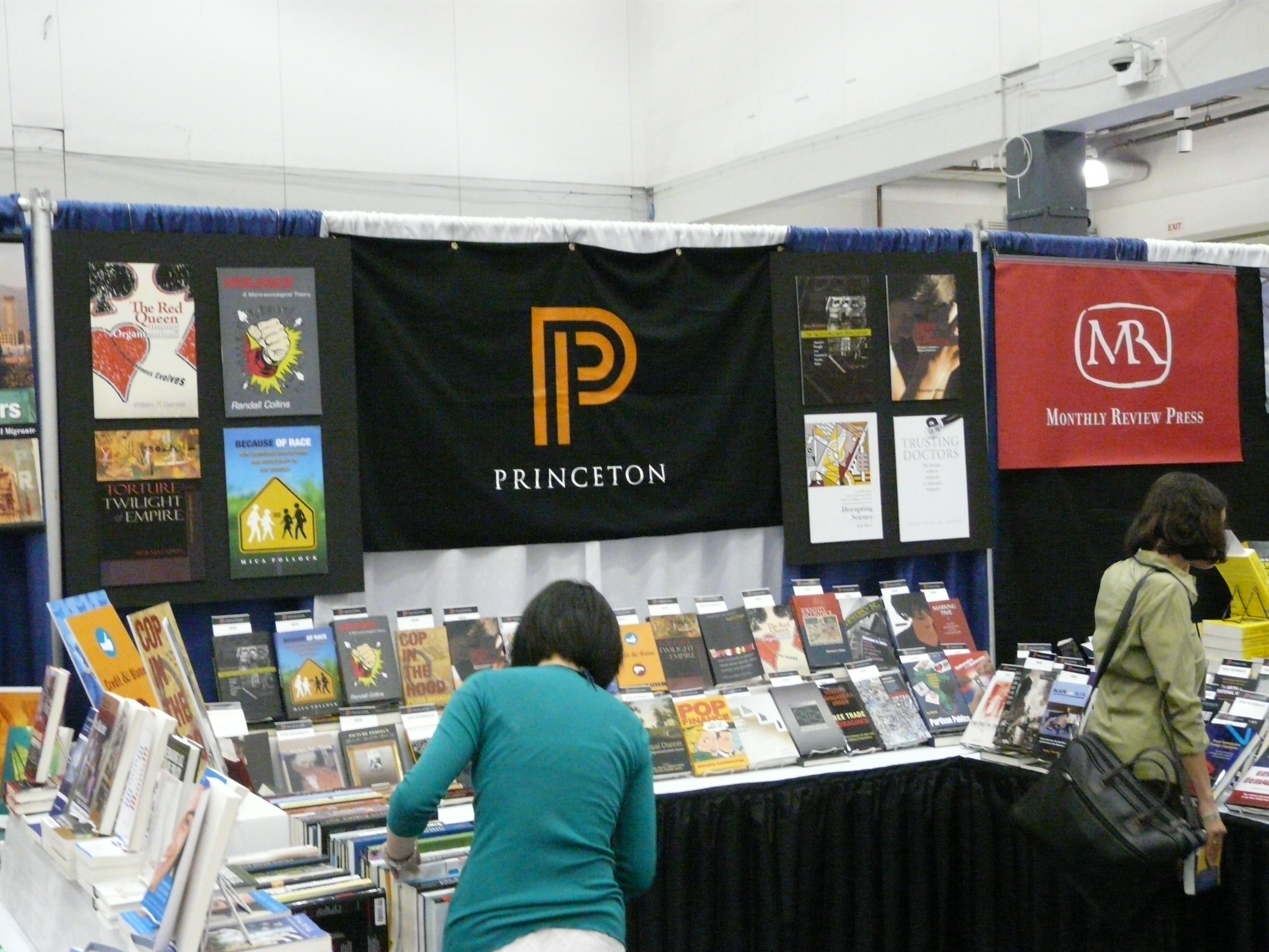 Boston. American Sociological Association conference.